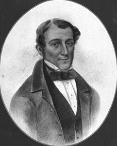 This is a photograph of Peter Broun (1797–1846), first Colonial Secretary of Western Australia, and a member of Western Australia's first Legislative Council.